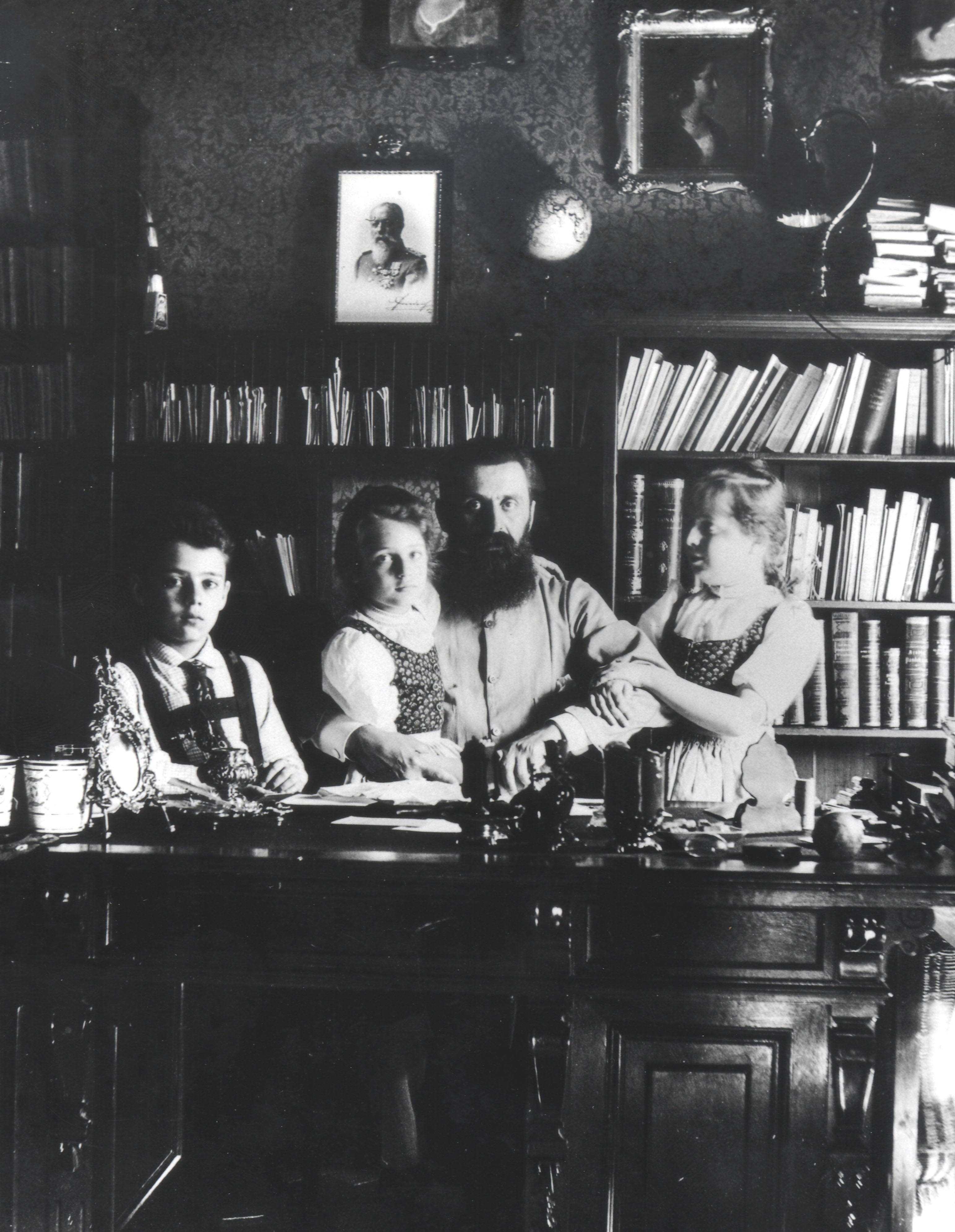 THEODOR HERZL WITH HIS CHILDREN IN HIS VIENNA STUDY. תאודור הרצל עם ילדיו בחדר העבודה בווינה - שנת 1897.